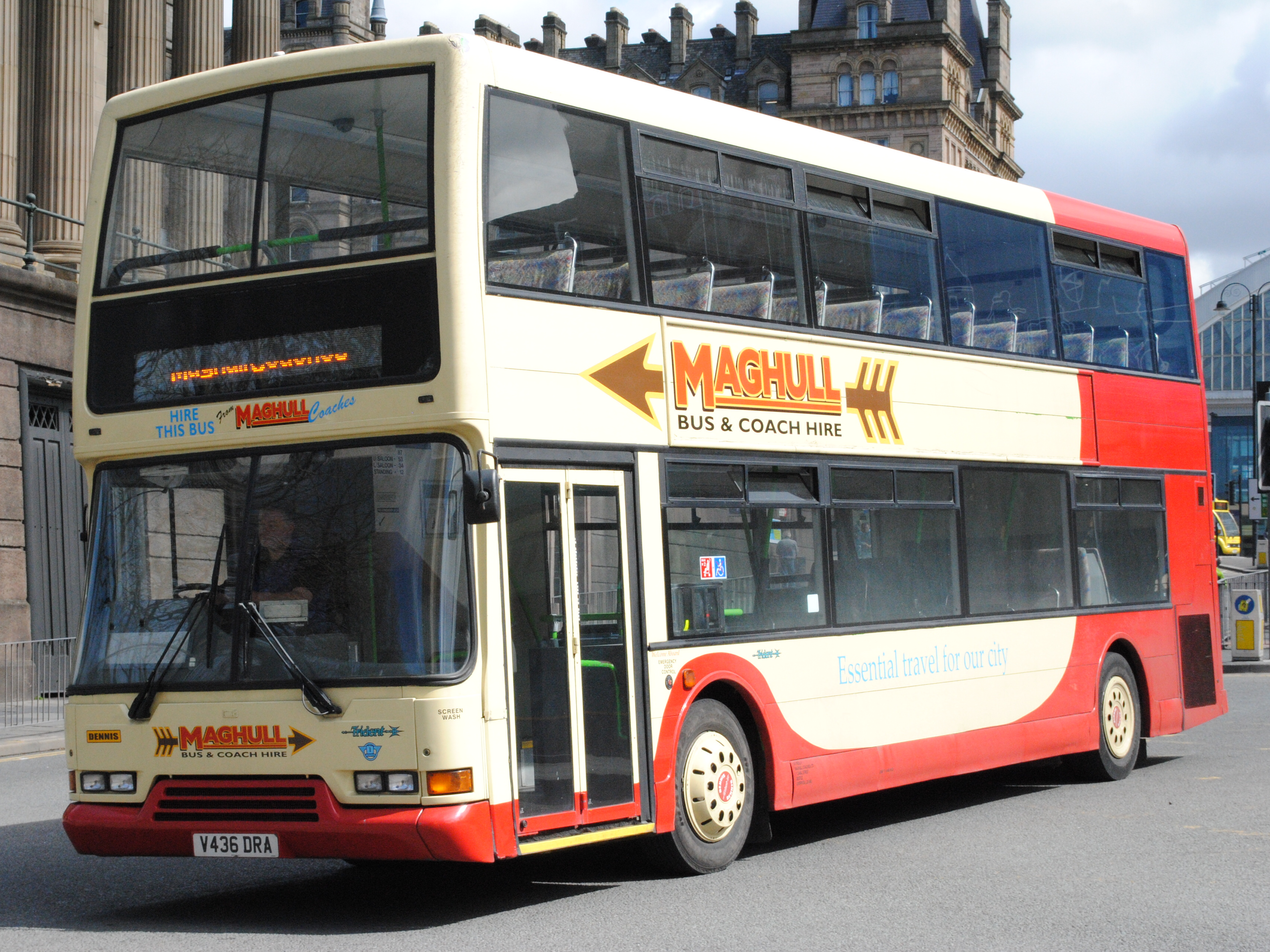 Dennis Trident East Lancs Lolyne. new to Nottingham City Transport 436